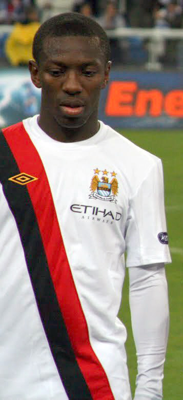 Shaun Wright-Phillips, Joleon Lescott and Adam Johnson line-up